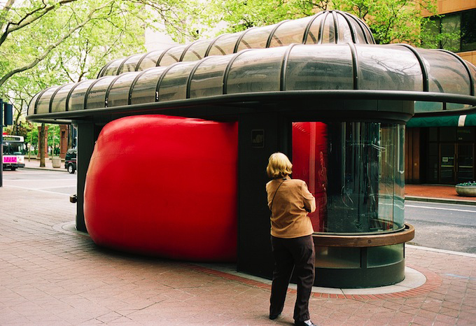 RedBall Project installation in Portland, Oregon, in this case using a Portland Transit Mall shelter that had recently (11 months earlier) been taken out of use but not yet removed.